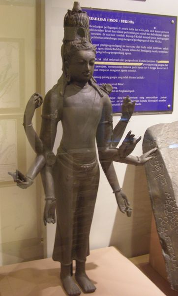 Avalokitesvara statue of Gangga Negara - GanggaNegaraStatue001.jpg